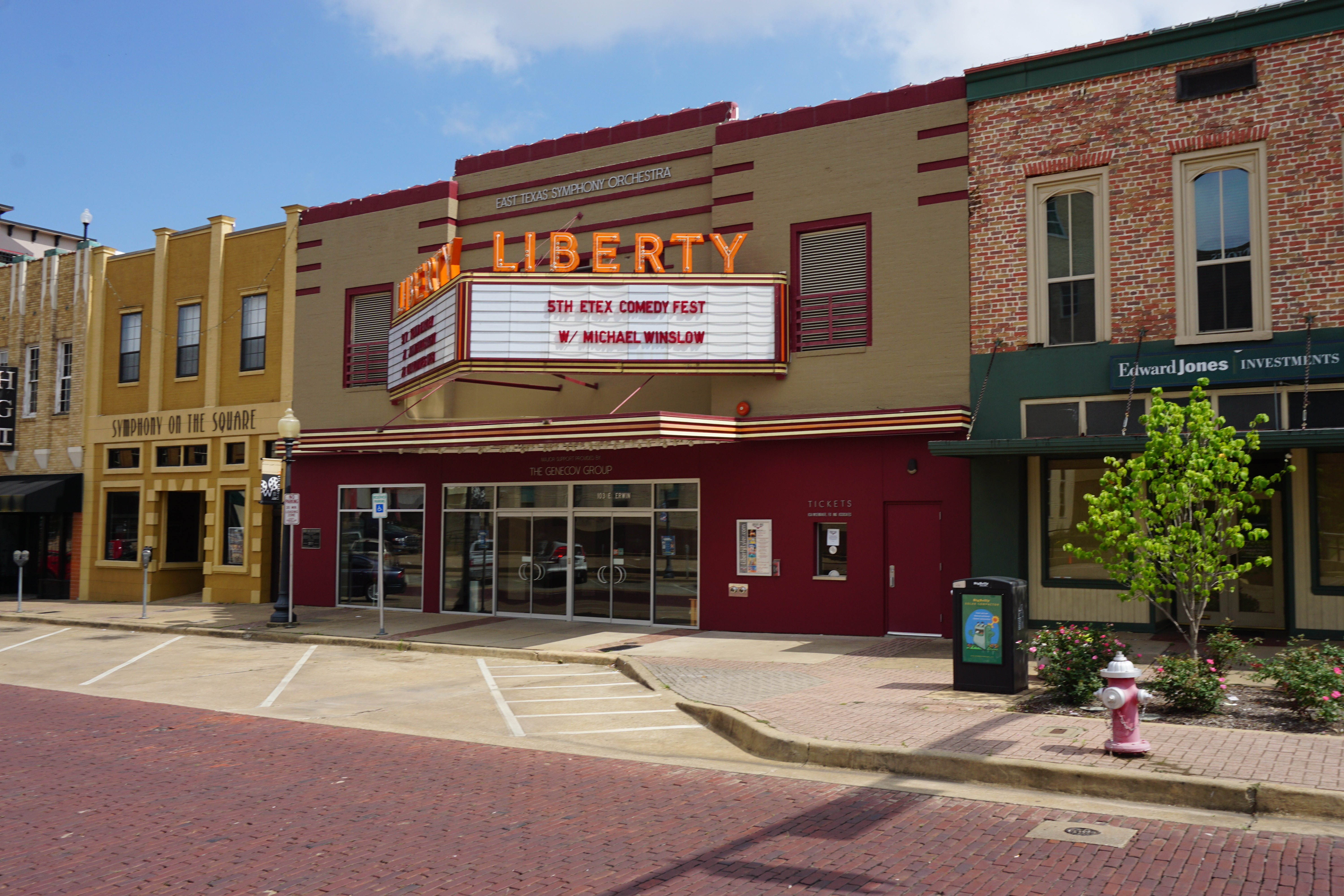 Liberty Hall in Tyler, Texas (United States).